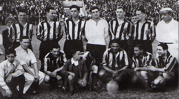 Rosario Central 1933. Up: Federico Marconi, ¿?, Ignacio Díaz, Bray (goalkeeper), Gaitieri, Scarpin. Down: Cagnotti, Gómez, Guzmán, Potro, García